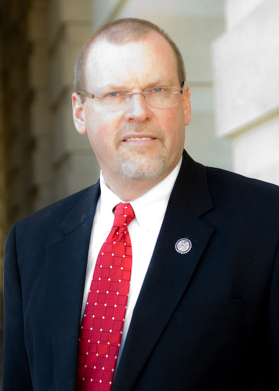 Morgan Griffith, Official Portrait, 112th Congress